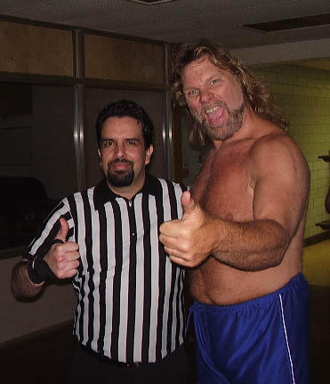 Picture of myself with Hacksaw Jim Duggan. This photo was taken in the locker room of a Cleveland All Pro Wrestling show.